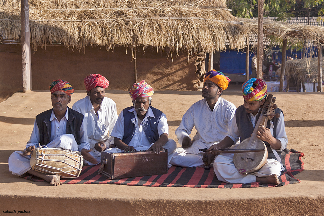 People from manganiyar tribe of Rajasthan have been singers for last hundreds of years. Enjoying their folk music filled with touch of Indian classical is a treat.